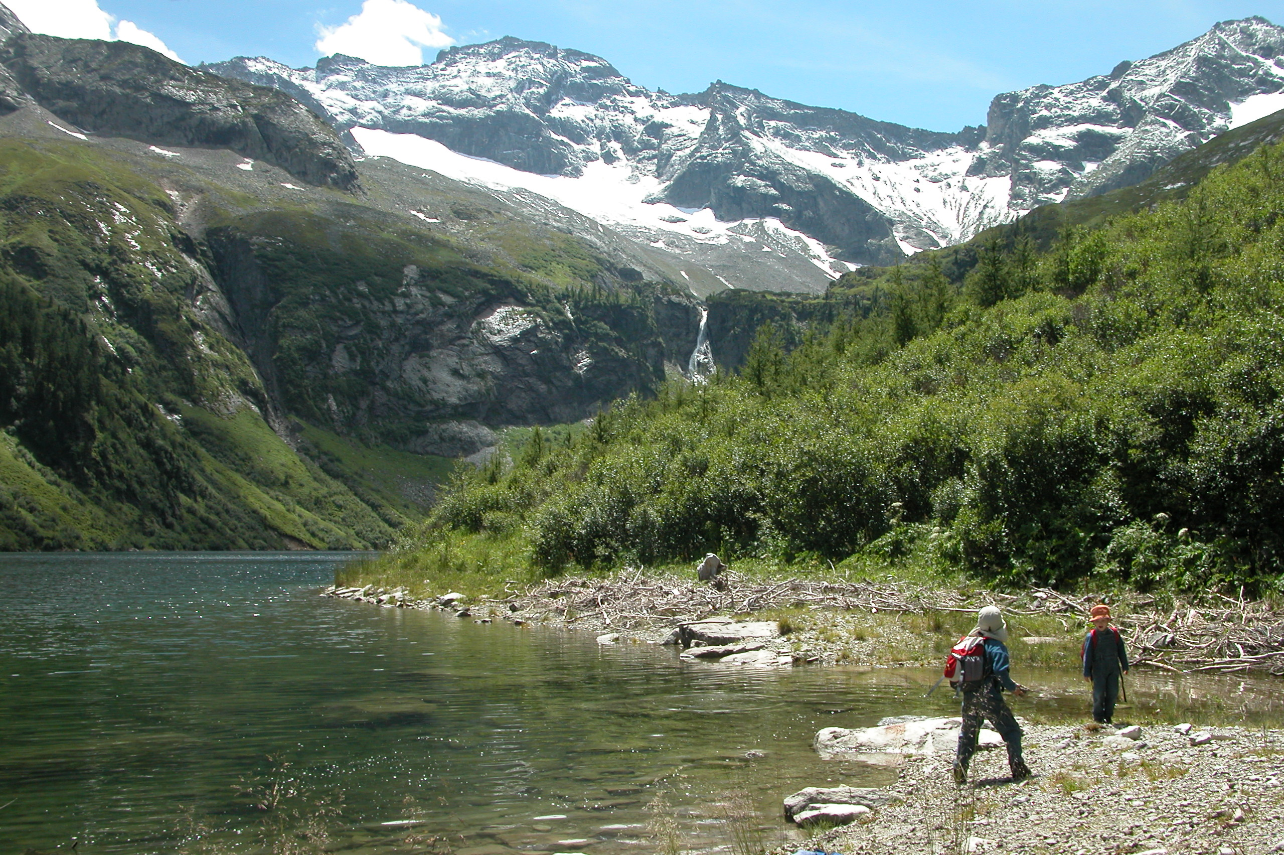 Lower Rotgüldensee in the Lungau (state of Salzburg, Austria) in the Hohe Tauern with the Großer Hafner (3.076m) in the background